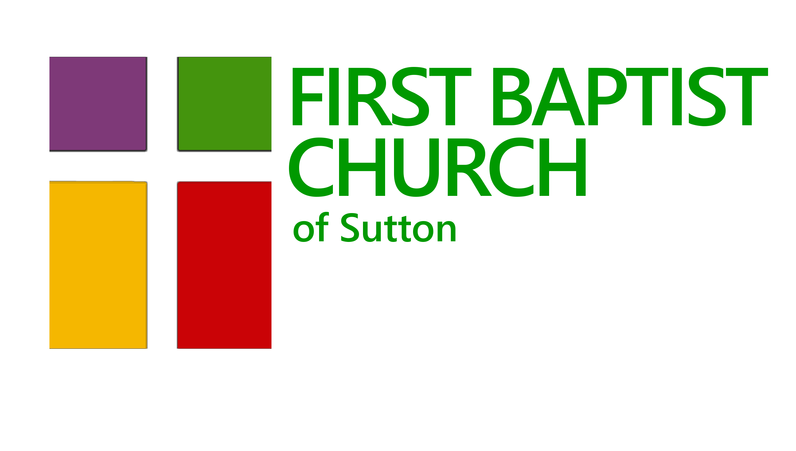 New Logo of First Baptist Church of Sutton created by me, Pastor Donald McKinnon